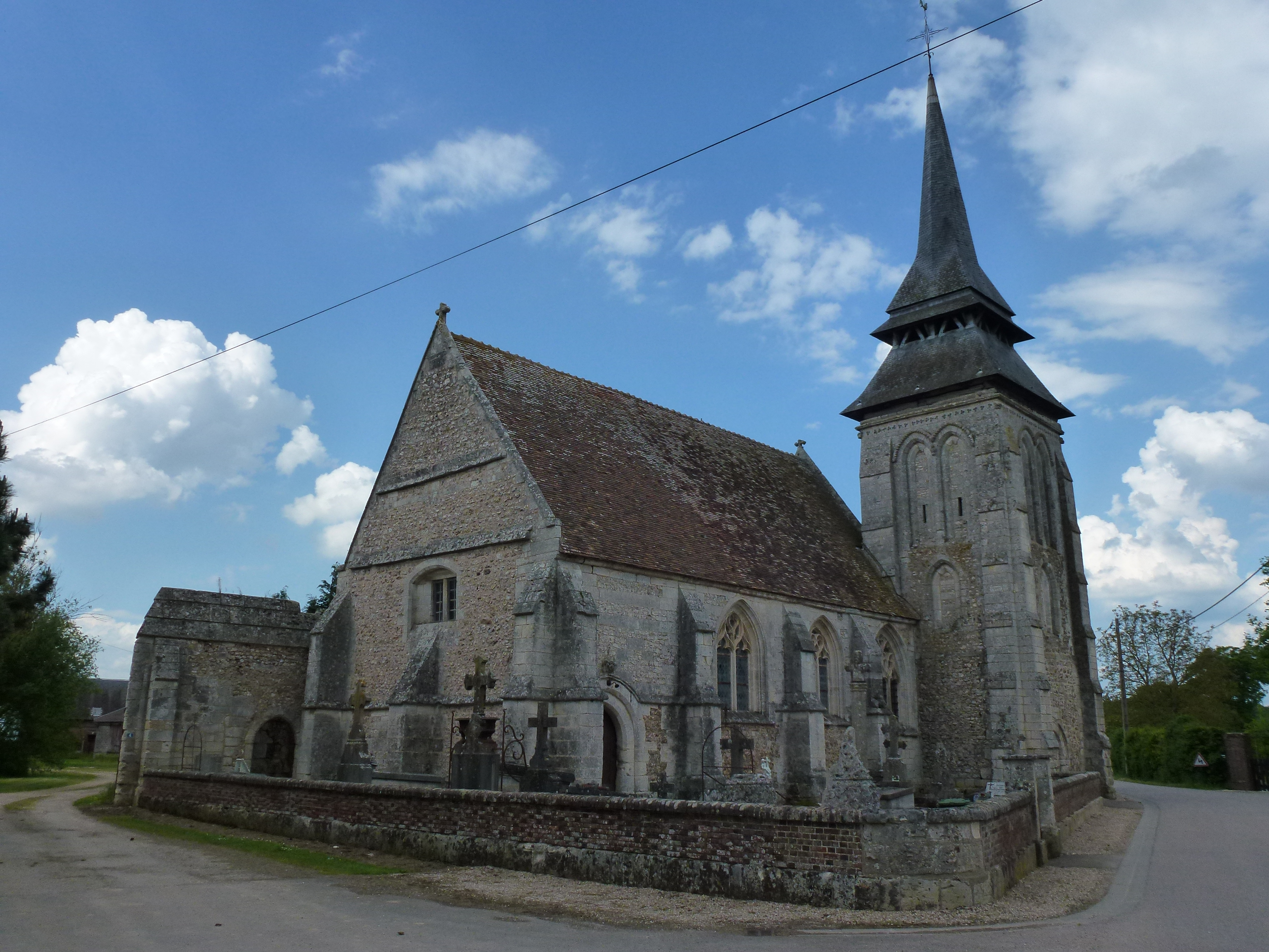 Le Plessis-Sainte-Opportune (Eure, Fr) église Saint-André du Plessis